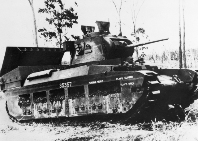 Obtained via: The photo's online record states that it's copyright status is 'clear'. AWM photo caption: MATILDA TANK WITH NAVAL HEDGEHOG MOUNTED ON BACK OF TANK. THIS EQUIPMENT CONSISTED OF SIX SPIGOTS MOUNTED IN LINE ON THE REAR OF THE TANK HULL OVER THE ENGINE COMPARTMENT.